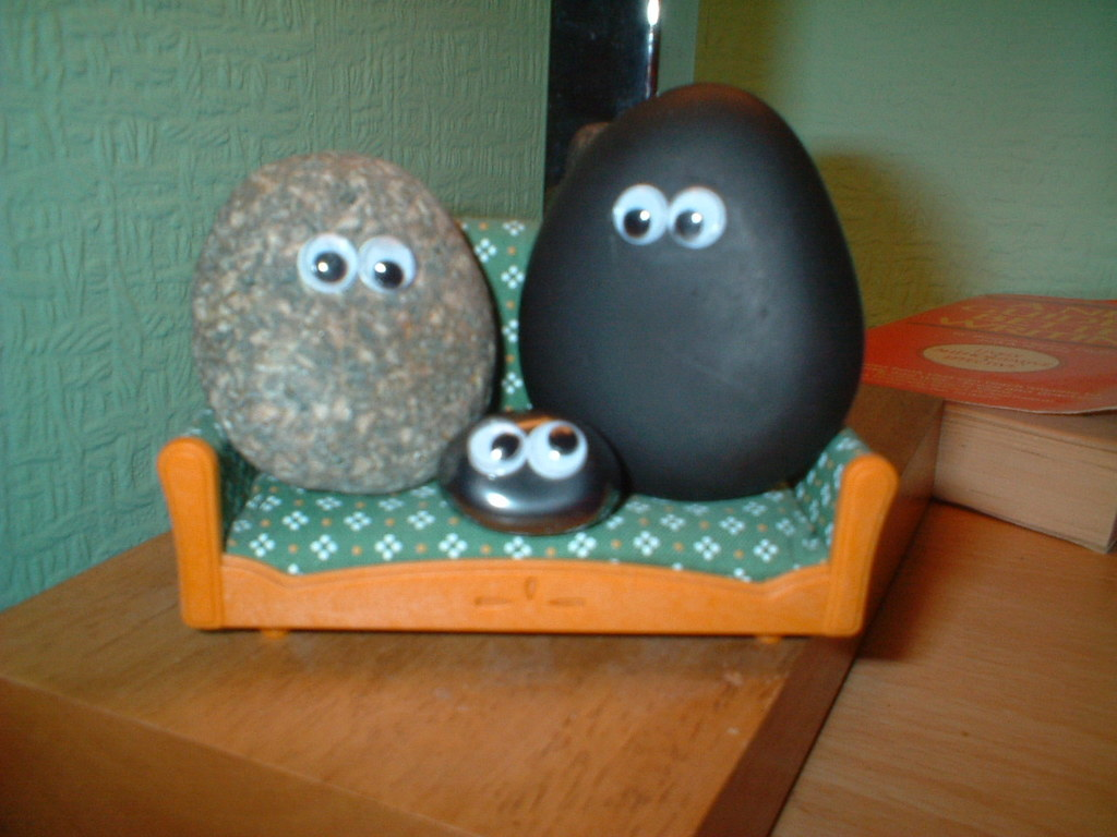 Image of imitation pet rocks. The original rocks had no eyes.